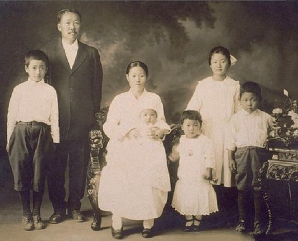 Korean immigrant family in Hawaii during the 19th century.